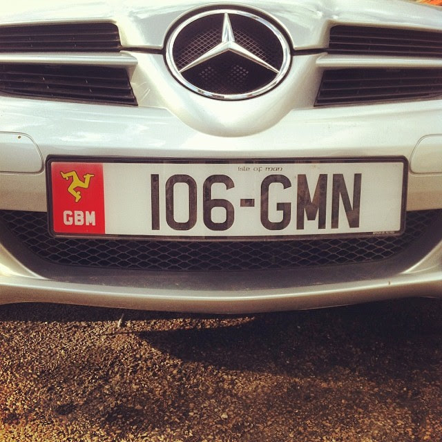 Vehicle registration plates of the Isle of Man